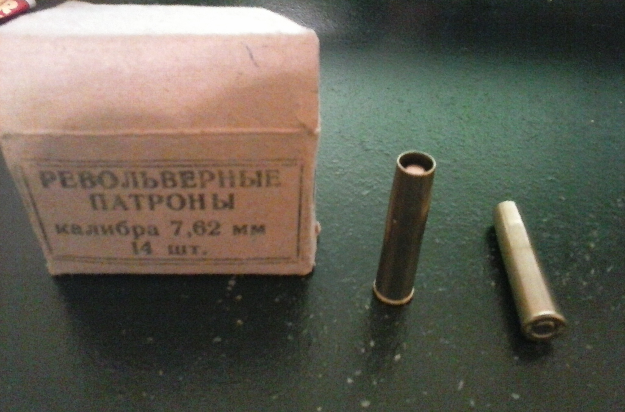 Military 7.62x38R ammunition. Carton: revol'vernyye / patrony / kalibra 7.62mm / 14 shtuka ("Revolver / Cartridges / 7.62mm Caliber / 14 Rounds")